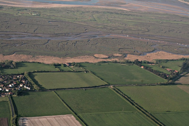 Brancaster Fort (Branodunum): aerial 2018 (1)